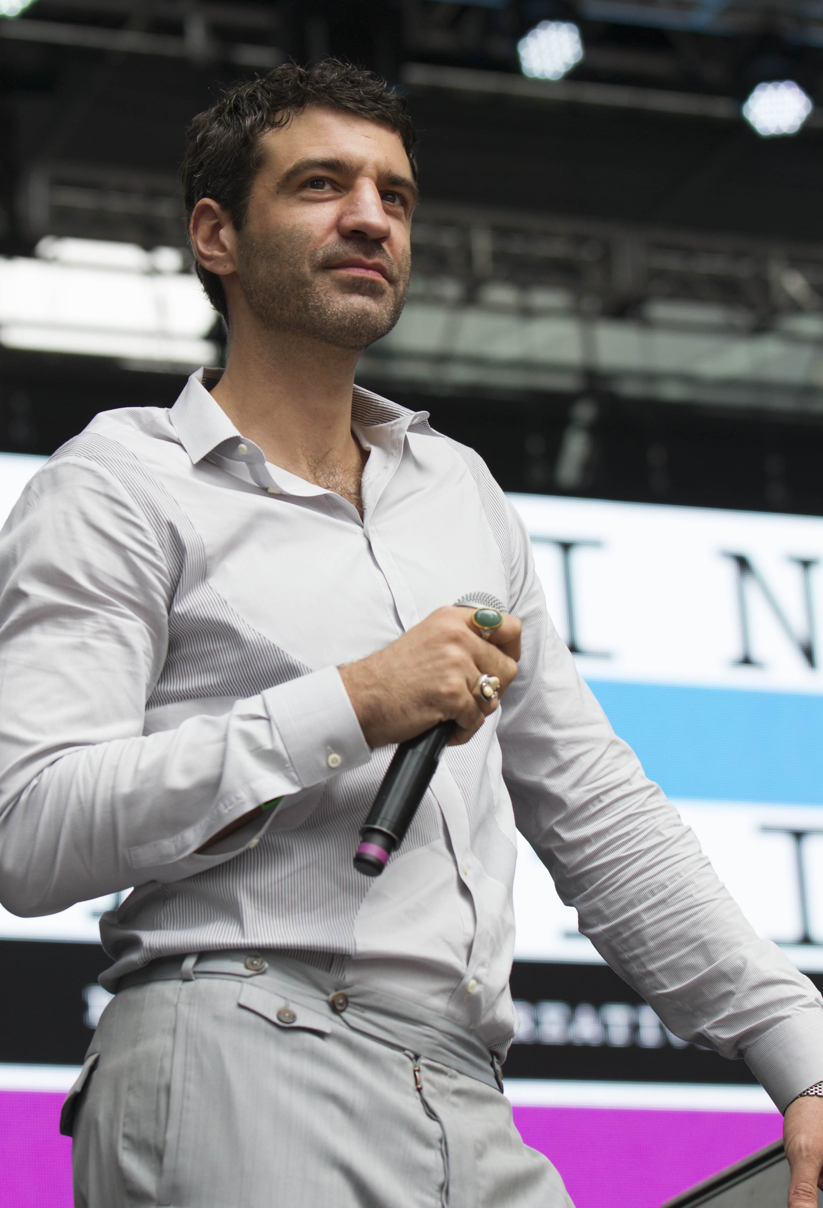 Photograph provided by Jörn Weisbrodt's assistant, Mark Rochford. SongsforLulu (talk) 09:05, 29 June 2014 (UTC)